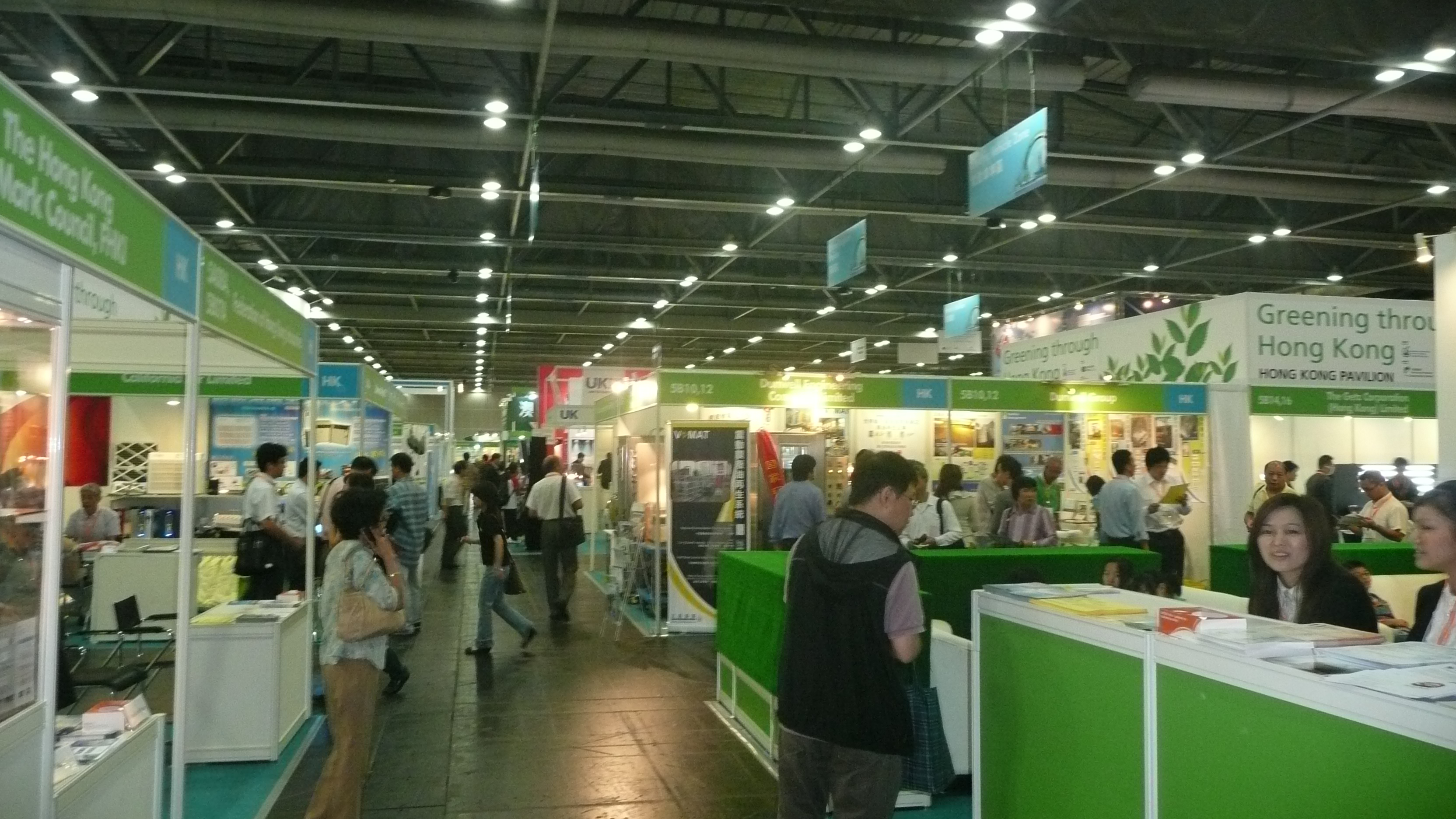 Fair Eco Expo Asia 2009 in Hongkong